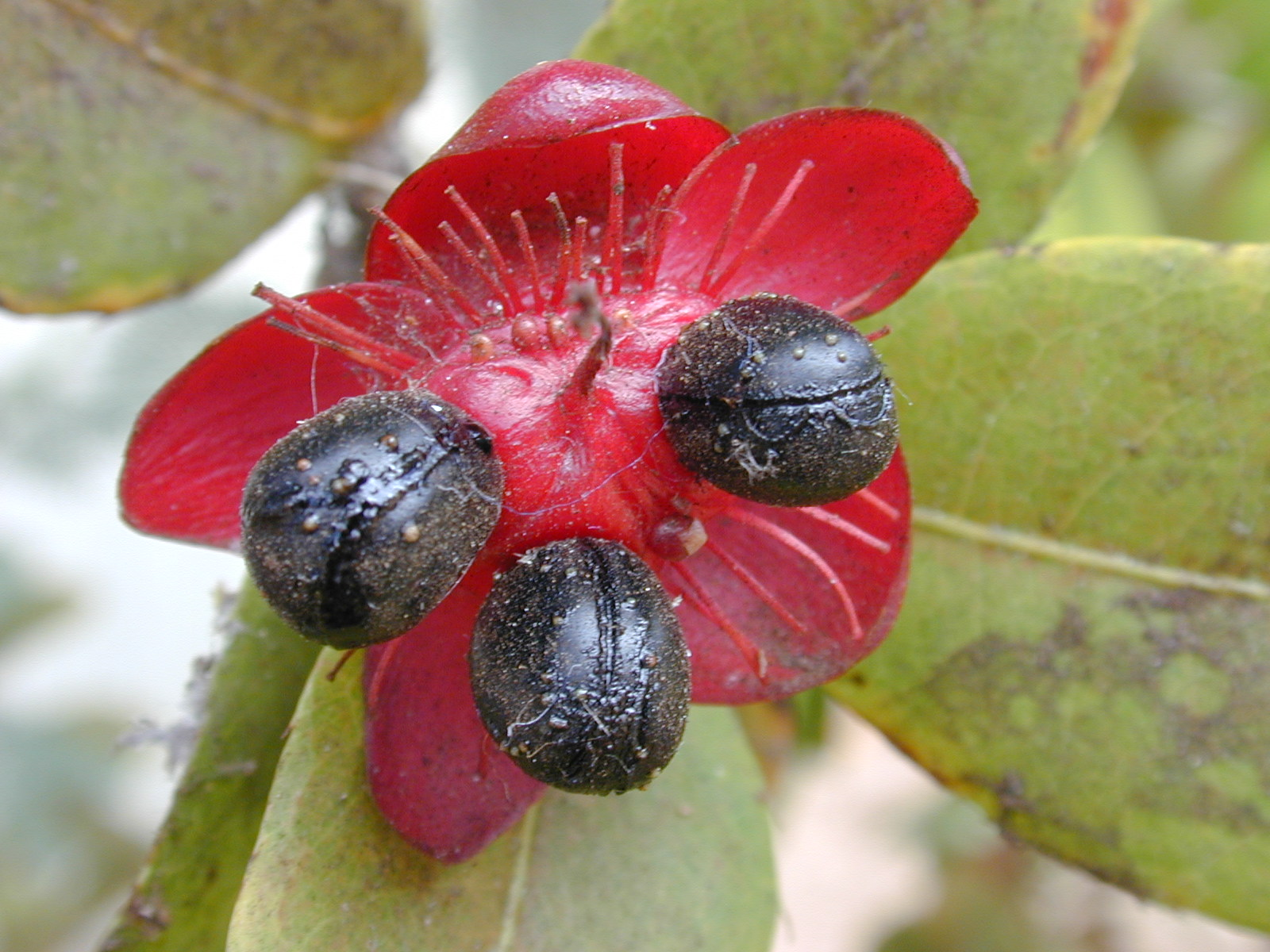 Ochna thomasiana (fruits). Location: Maui, Lahaina